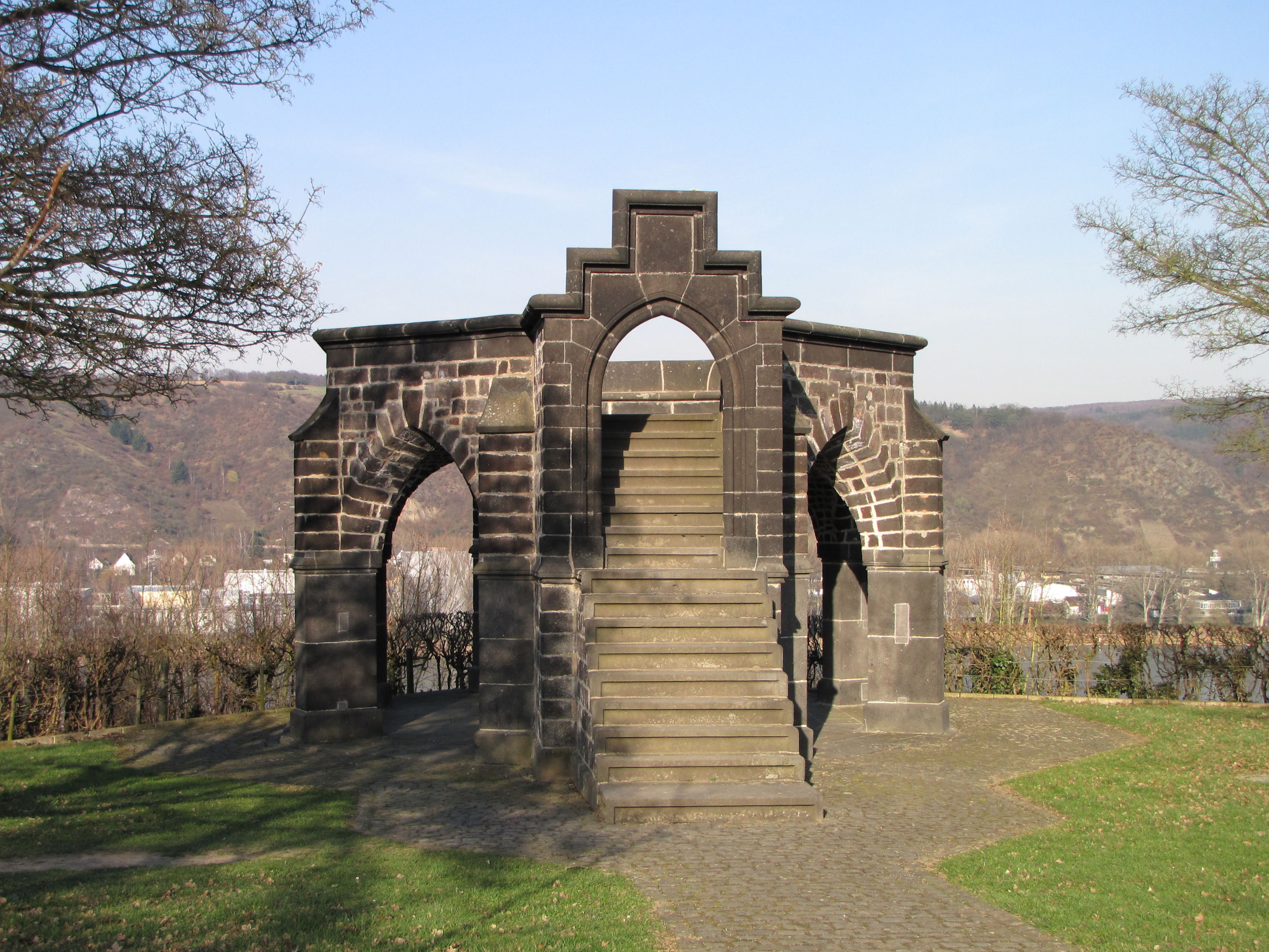 Königsstuhl of Rhens